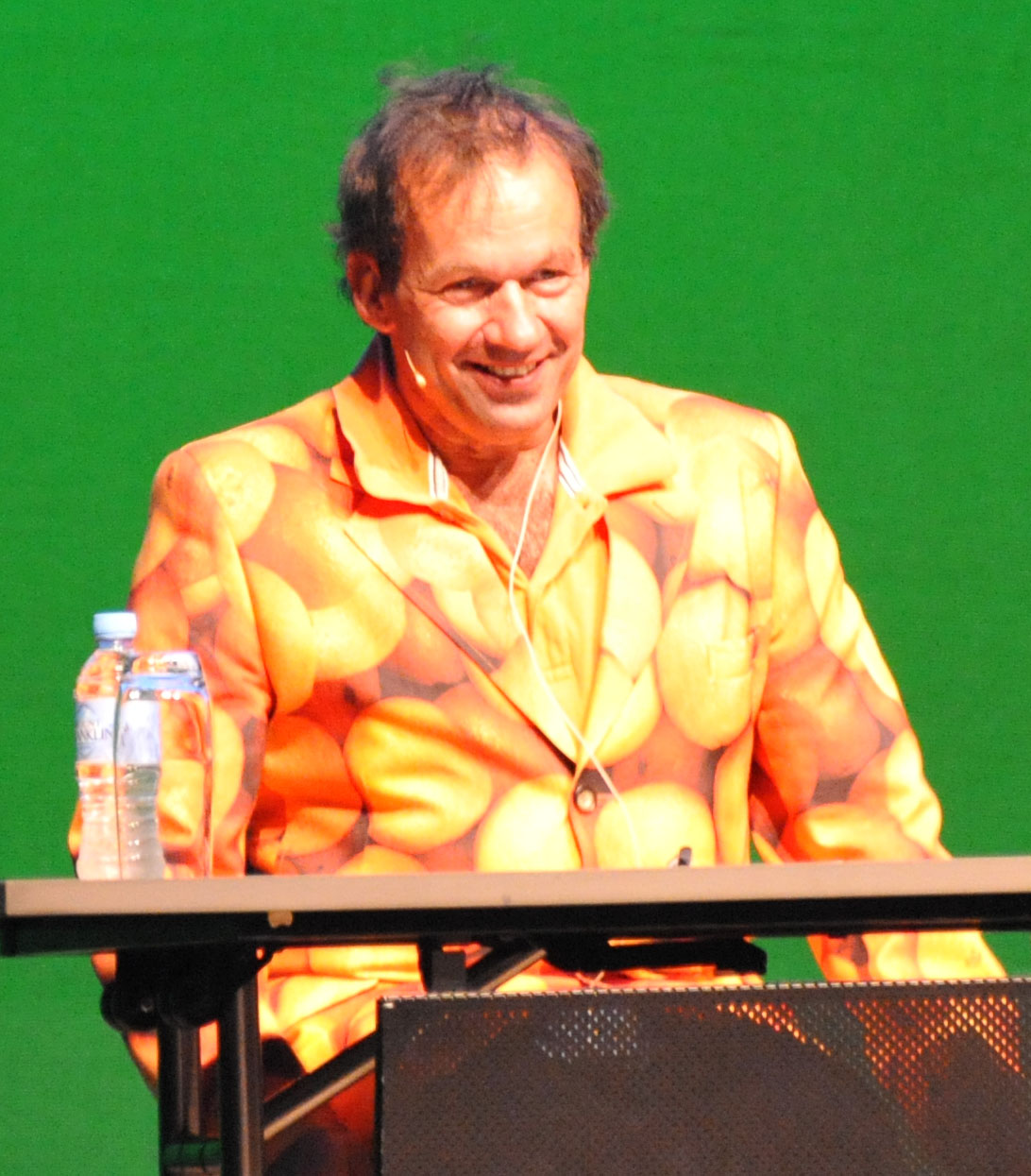 Dick Gross at the 2012 Global Atheist Convention in Melbourne on 14 April 2012